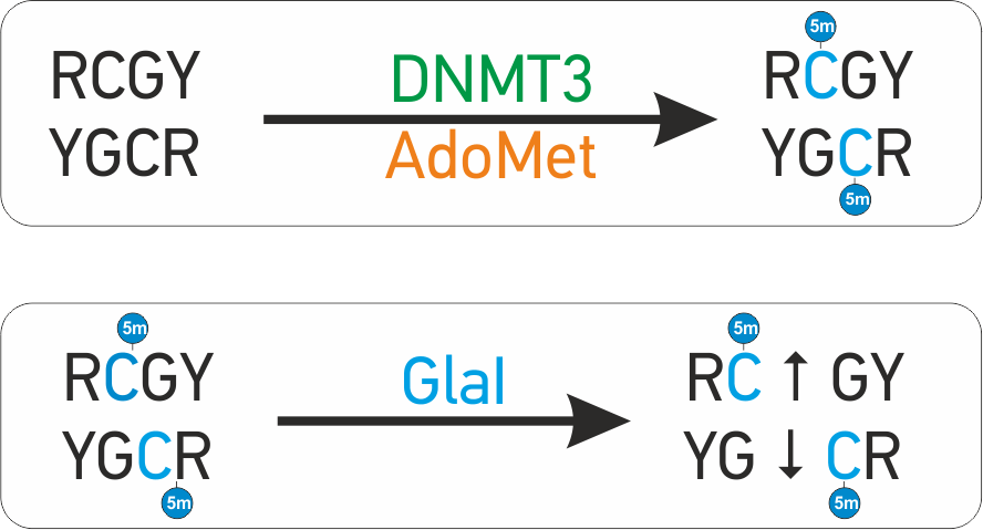 DNMT3 and GLAI specifity